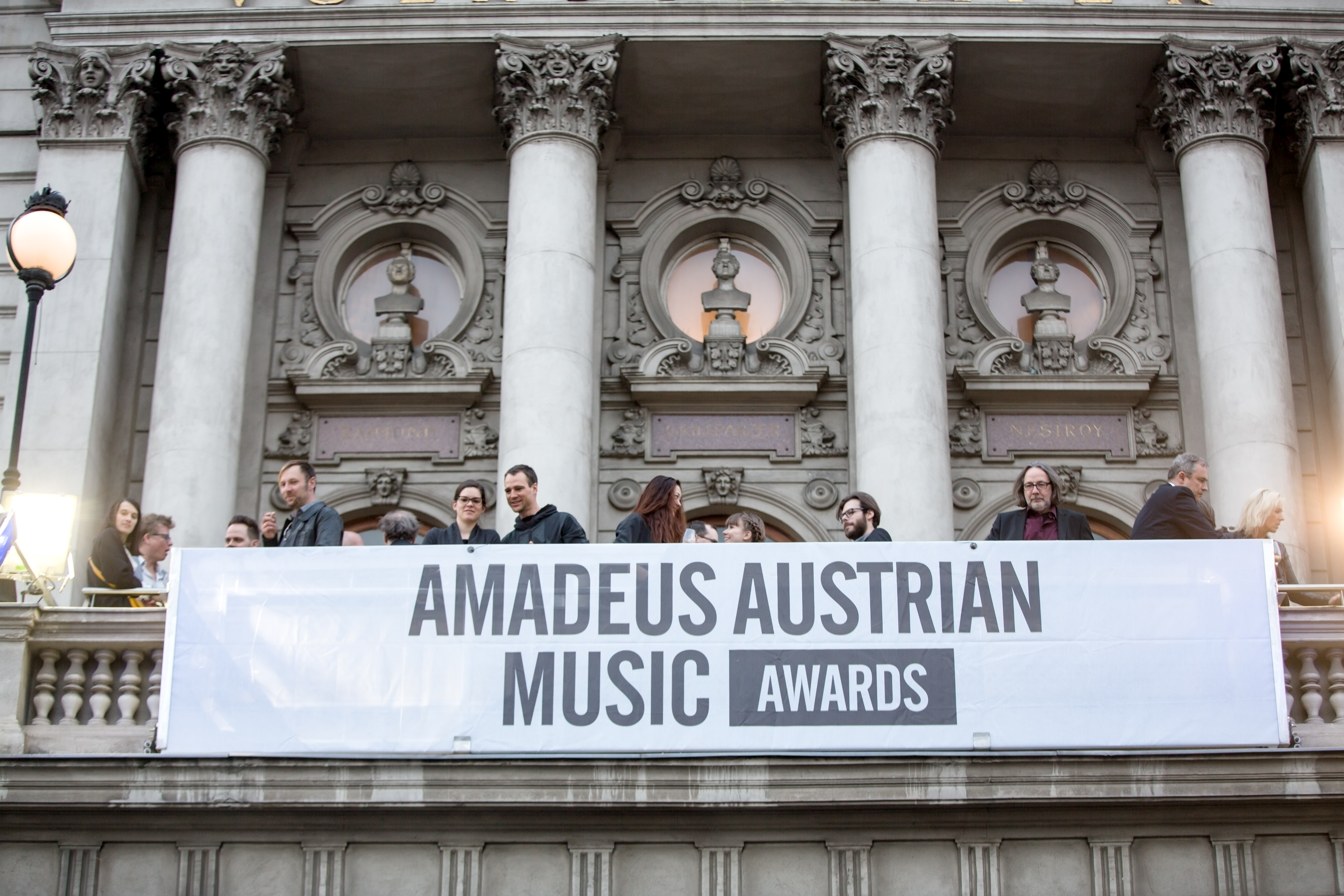 Amadeus Austrian Music Award 2015 at Volkstheater in Vienna